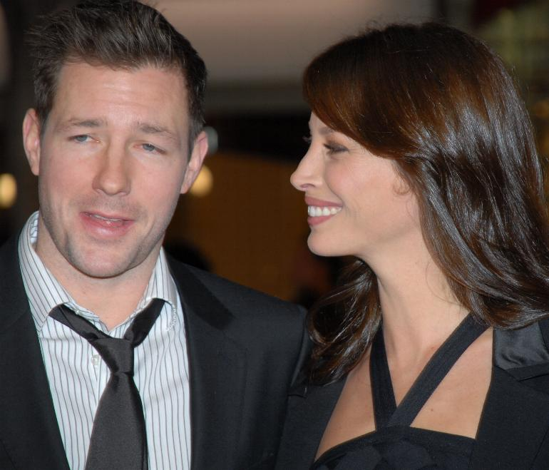 January 7, 2008 - 27 Dresses Premiere in Westwood